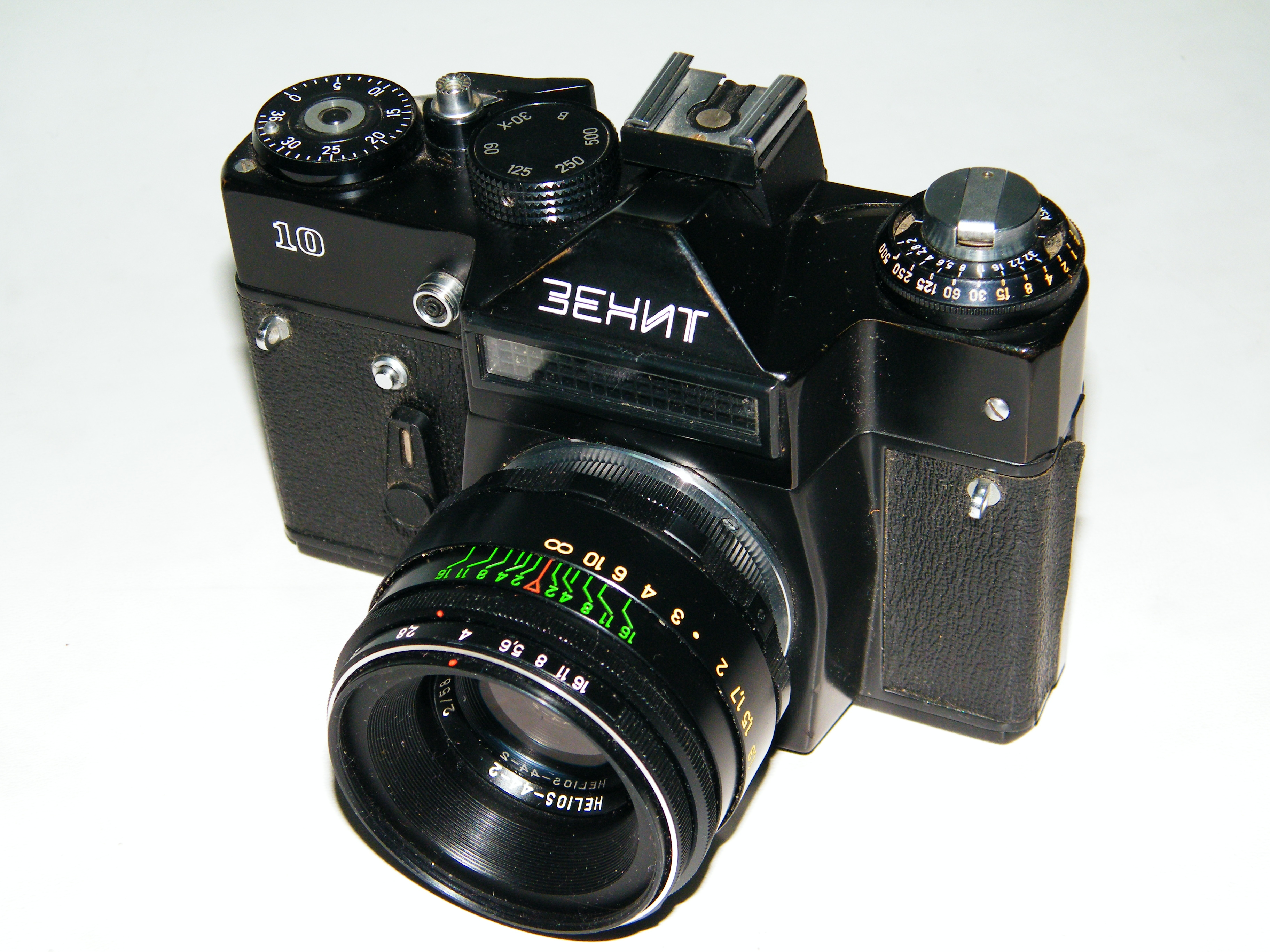 Зенит-10